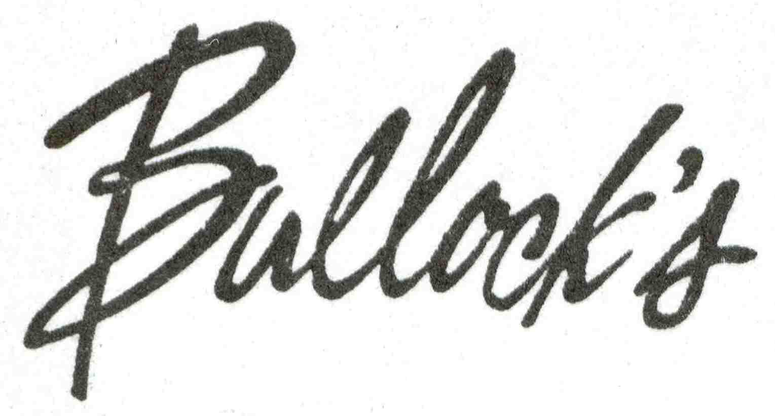 Logo of Bullock's — a former upscale department store, that had locations in Los Angeles and Southern California.